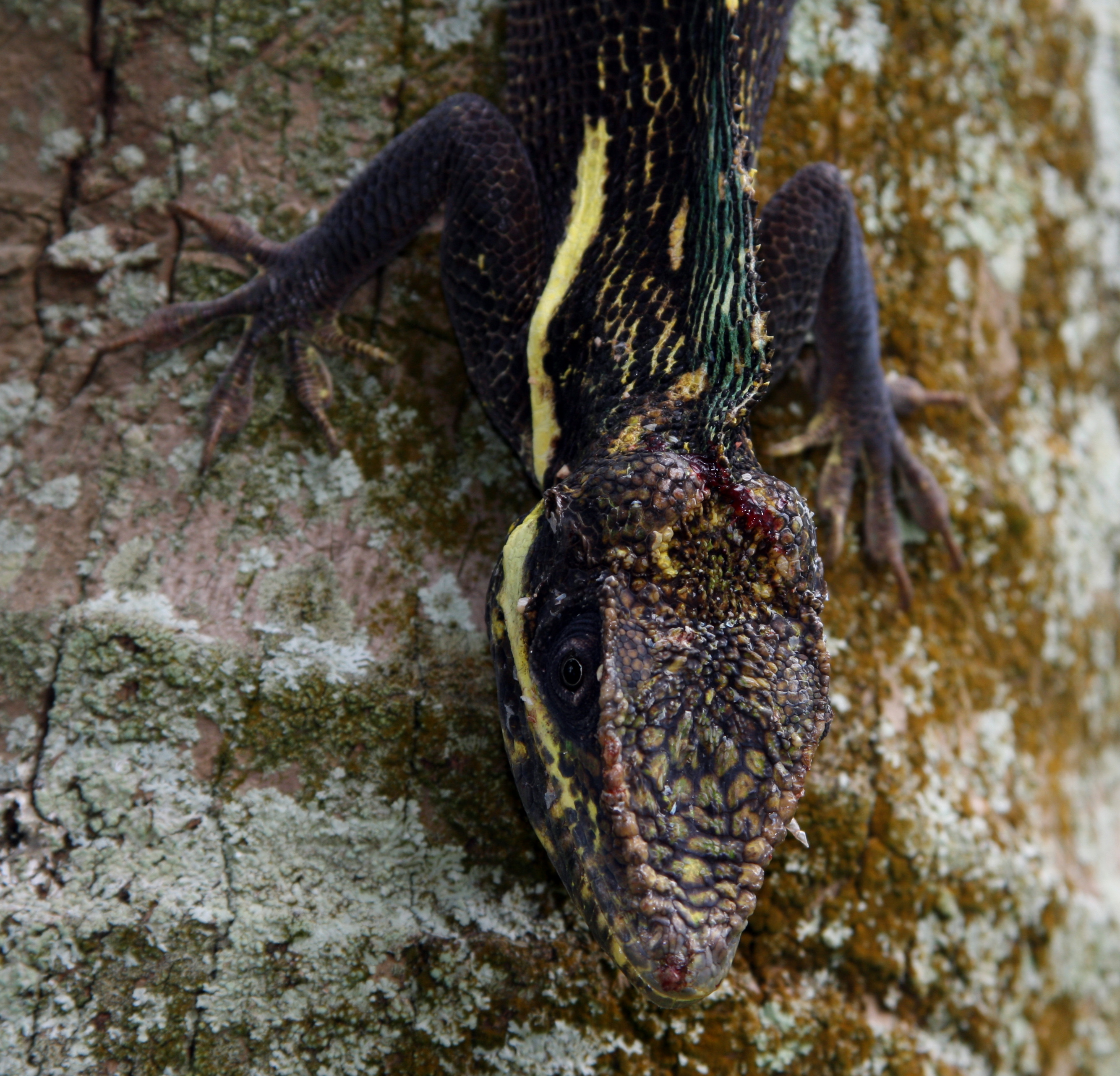 Anolis equestris wound from territorial dispute.